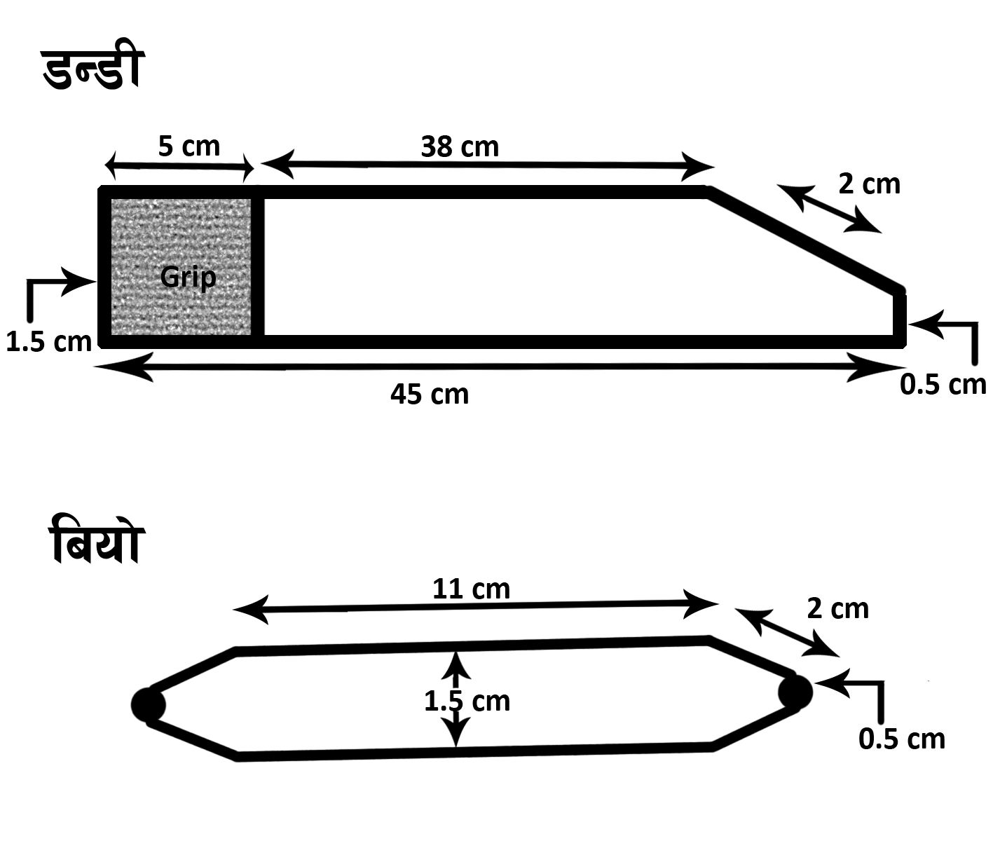 Measurement of Dandi and biyo of game Dandibiyo.